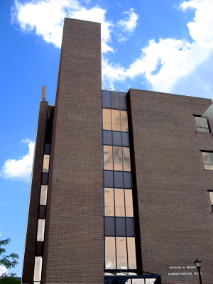 Image taken with my Canon digital camera. Sky inverted using Adobe PhotoShop CS for Macintosh.